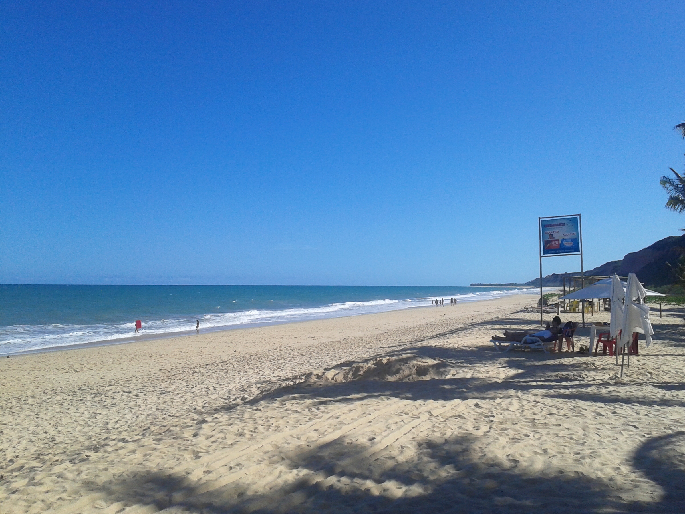 View of the Taipe beach in the Trancoso district, in Porto Seguro, Bahia, Brazil.